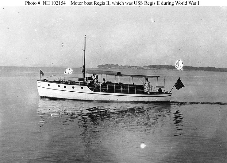 The private motorboat Regis II sometime prior to her United States Navy service as the patrol vessel